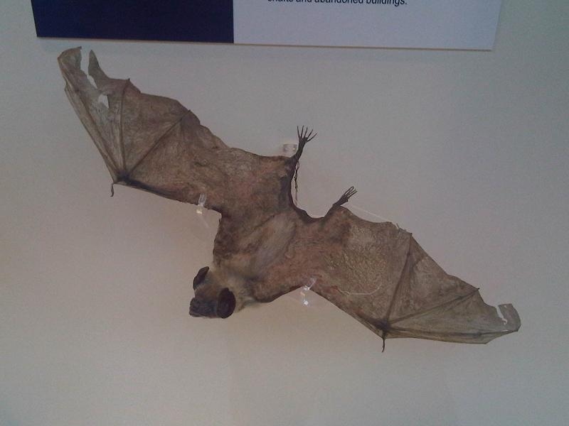 Taxidermied Common Vampire Bat (Desmodus rotundus) at the Natural History Museum in London, England.